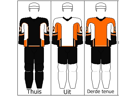 Uniform of the HPK ice-hockey team in the SM-liiga in Finland (in Dutch)